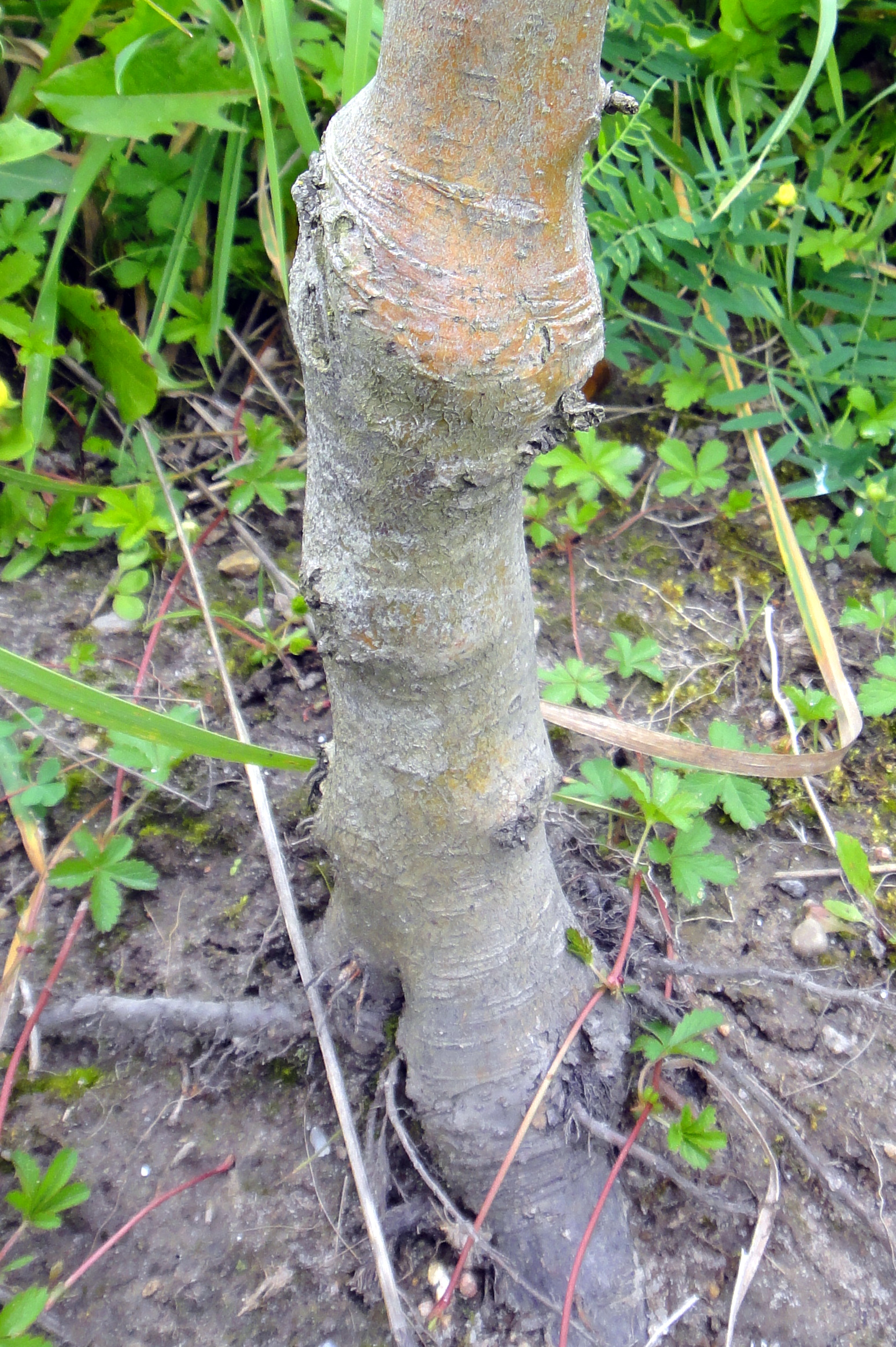 Alkmene apple tree grafted on a rootstock